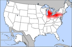 New Castle and the nearby "Iron City" (Pittsburgh) are both nearly dead center in the red scatter diagram of the Rust Belt on this map showing the continental USA. The Rust Belt is highlighted on the above map in red. Manufacturing Belt, highlighted in red. Rust Belt, highlighted in red.